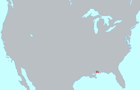 distribution of Biloxi language